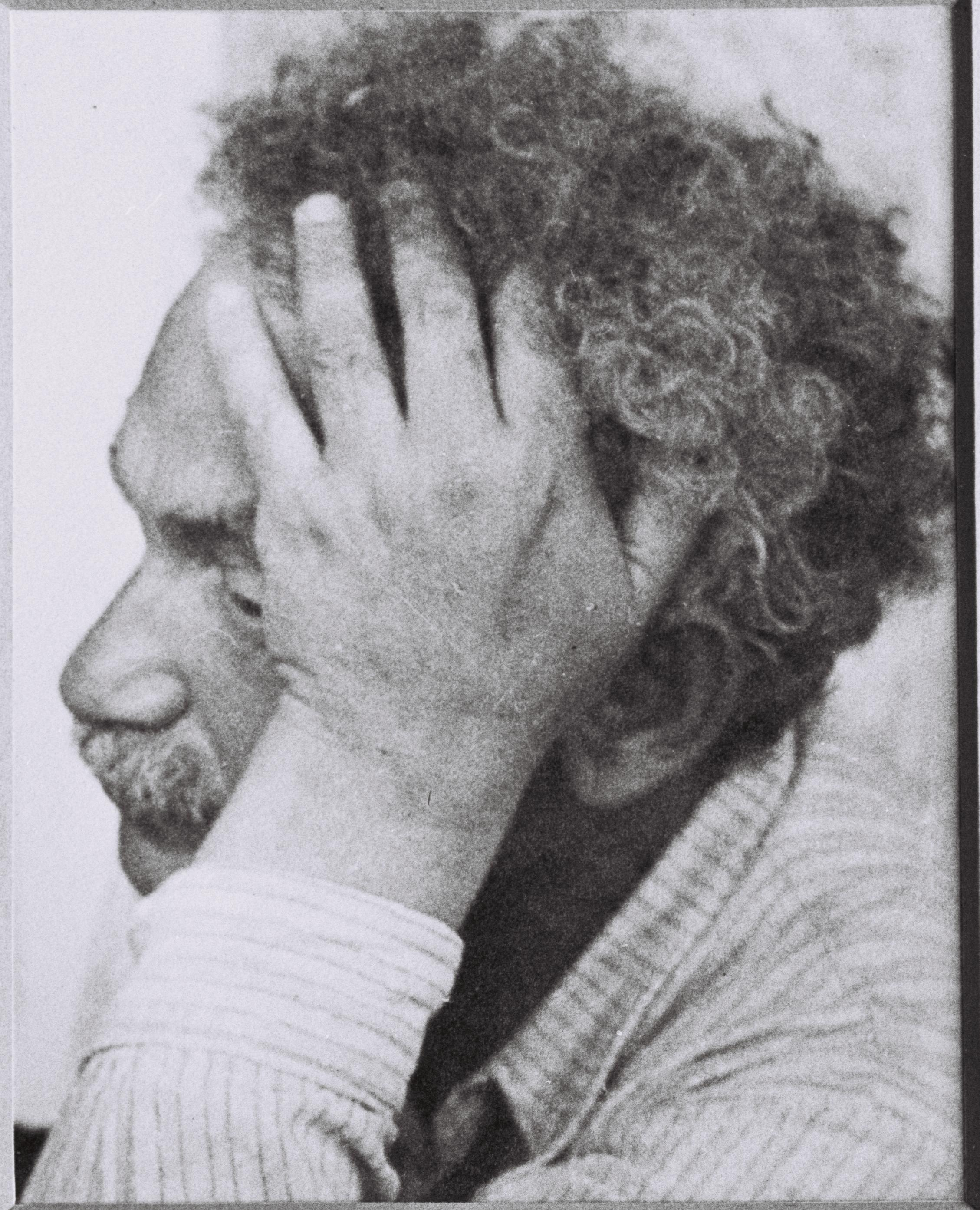 BERL KATZENELSON. פורטרט, ברל כצנלסון.